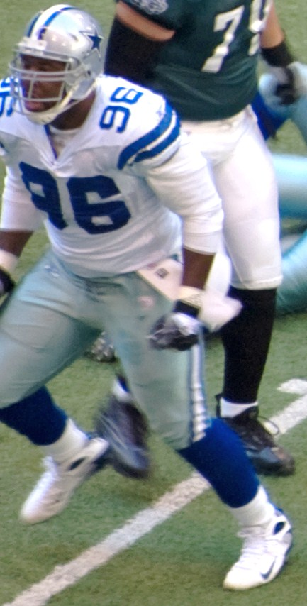 Marcus Spears (Cowboys, #96) and other players of the Dallas Cowboys and Philadelphia Eagles during their game at Texas Stadium on 12/16/07.